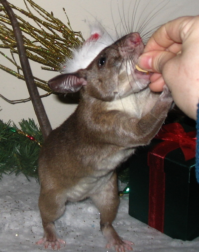 Photo of a pet african Pouched Rat, Crycetomis emini.